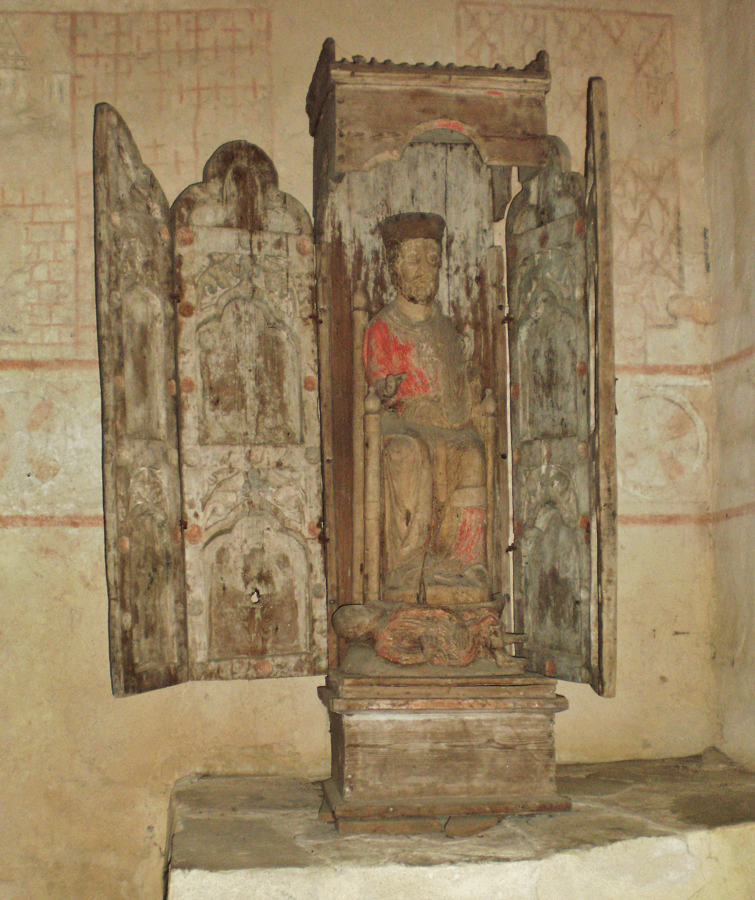 Dädesjö old church.Medieval St. Olaf Picture.